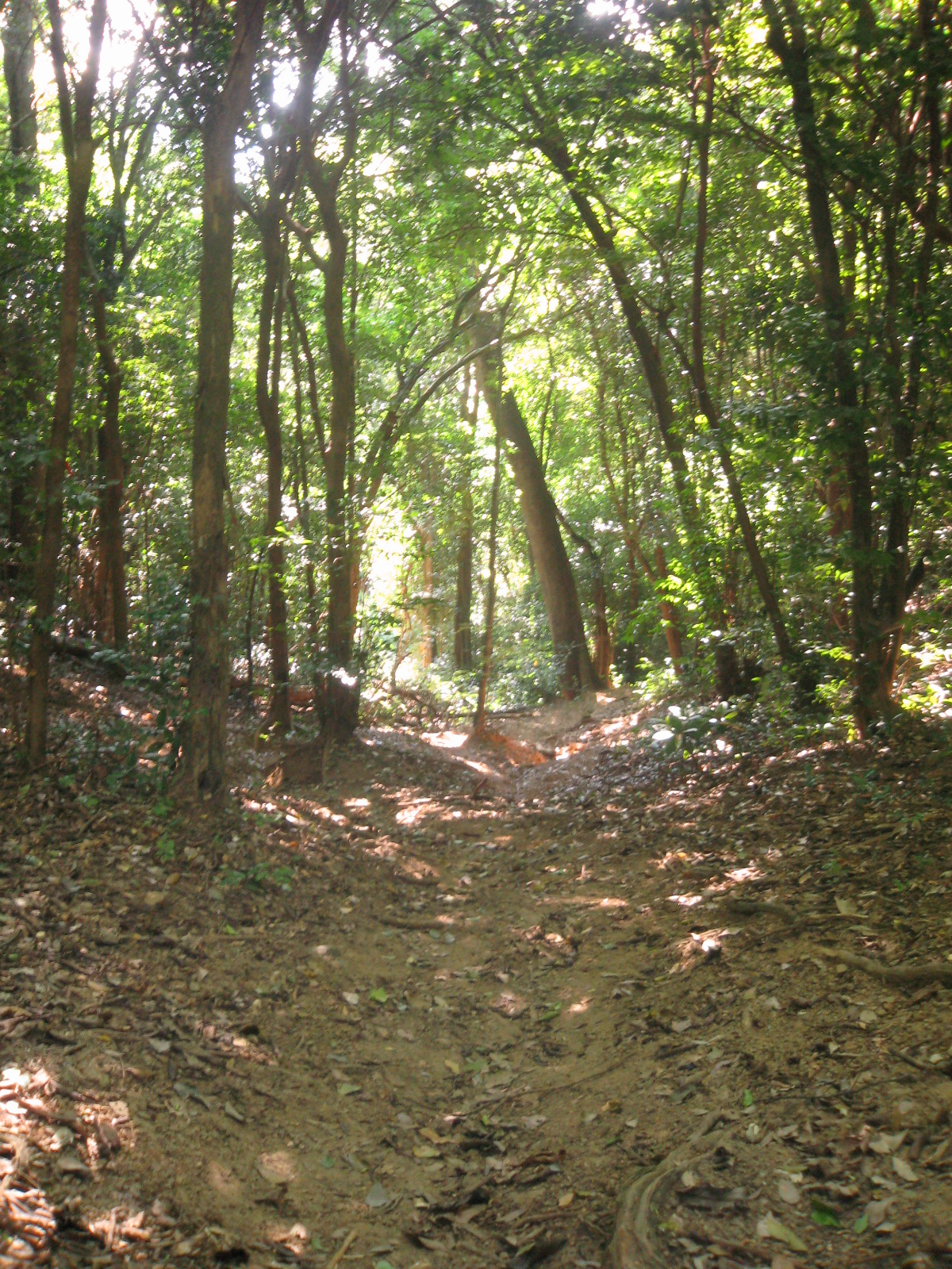 Forest, Pa Kui Buri, Thailand